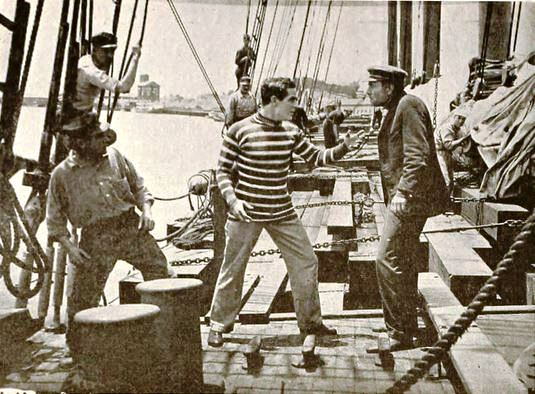 Still from the American film serial Perils of Thunder Mountain (1919) with Antonio Moreno, page 1286 of the August 9, 1919 Motion Picture News.